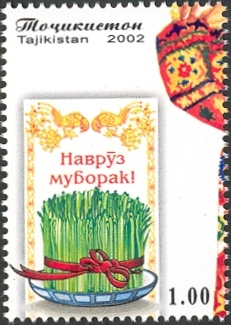 Stamps of Tajikistan